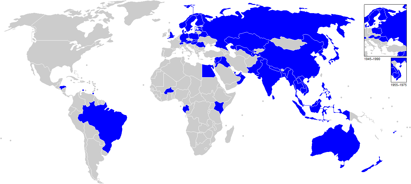 Contries was participate in King's cup